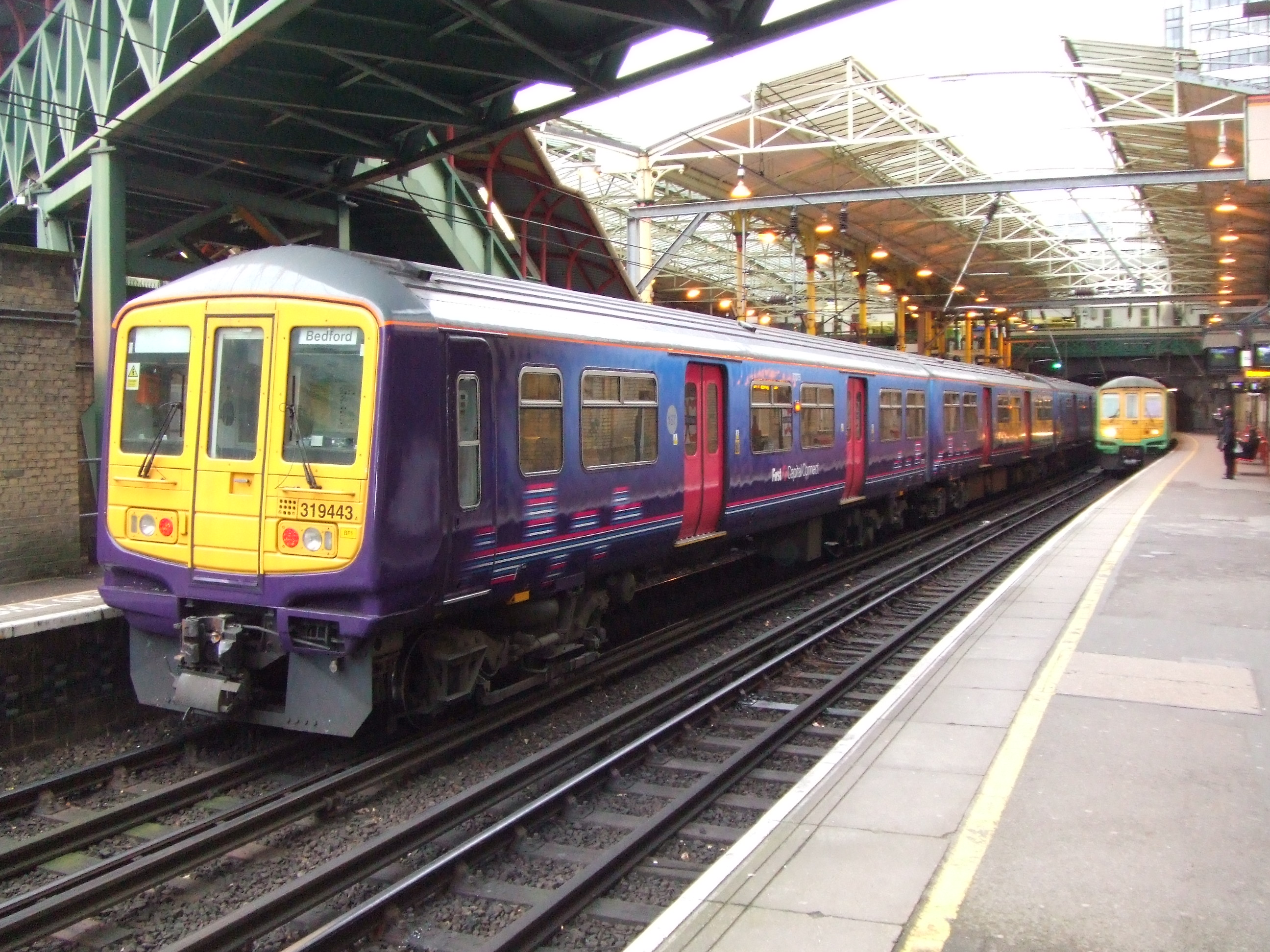 BREL (York) Class 319/4 Standard Class III 25k v ac overhead/750v dc 3rd rail 4-car emu No.319 443 of First Capital Connect in their "urban lights" livery at Farringden on a Luton - Gatwick Airport - Brighton service, 11/07.